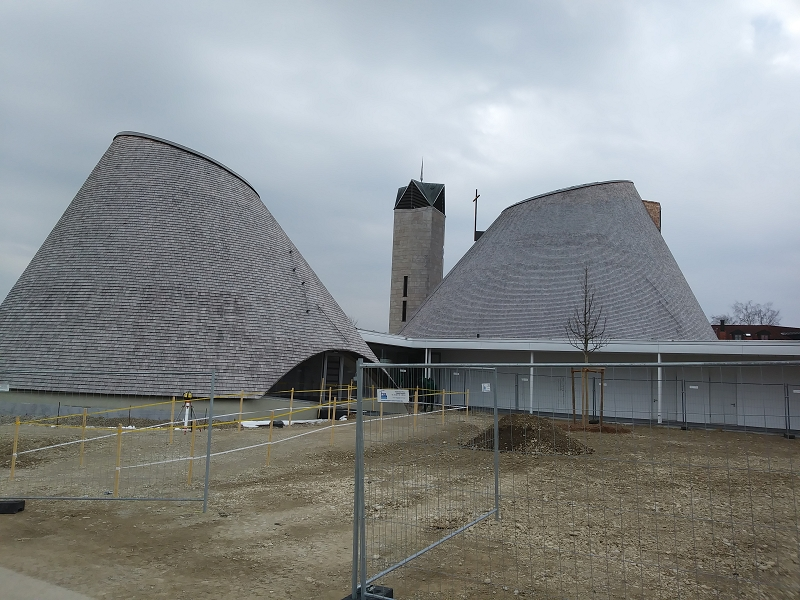 New roman catholic church St. Josef in Holzkirchen (Upper Bavaria)